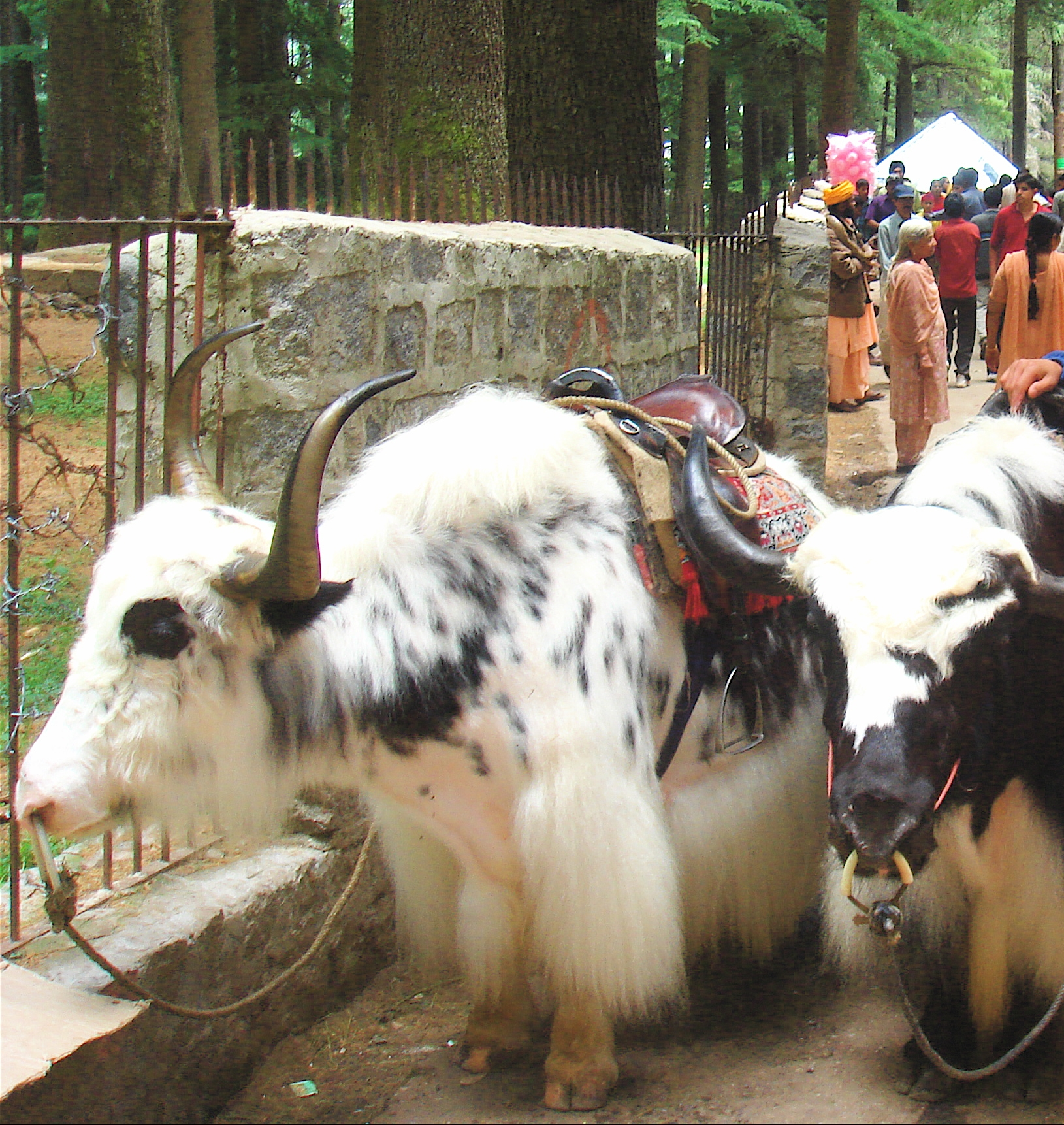 edited version